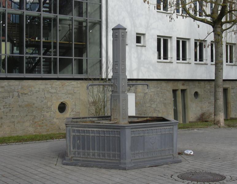 Fountain in Sersheim, Germany